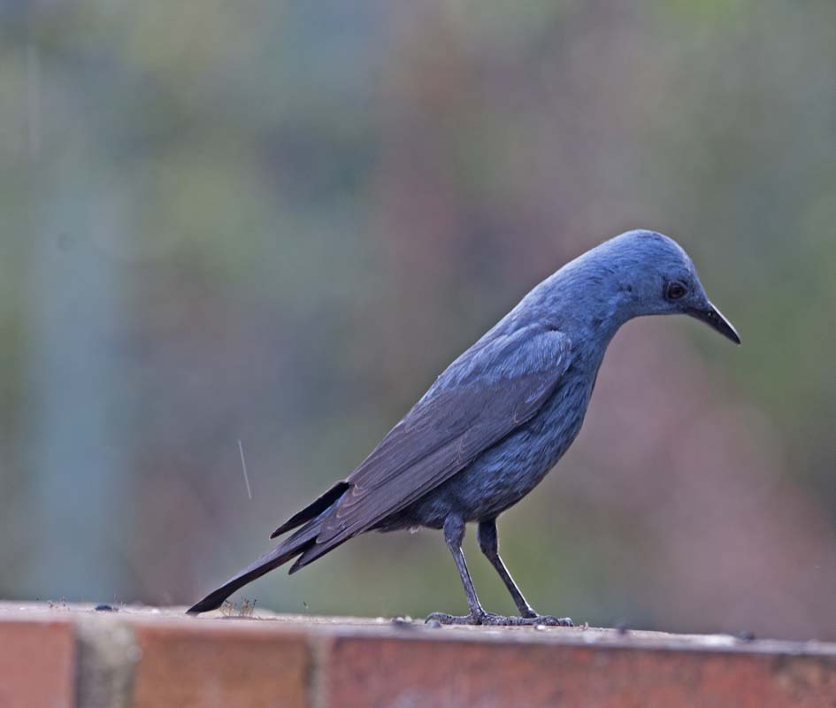 Blue Rock Thrush - a typical nesting bird of the Rock of Gibraltar